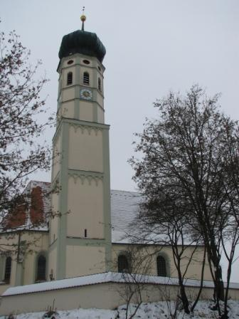 church in Orthofen